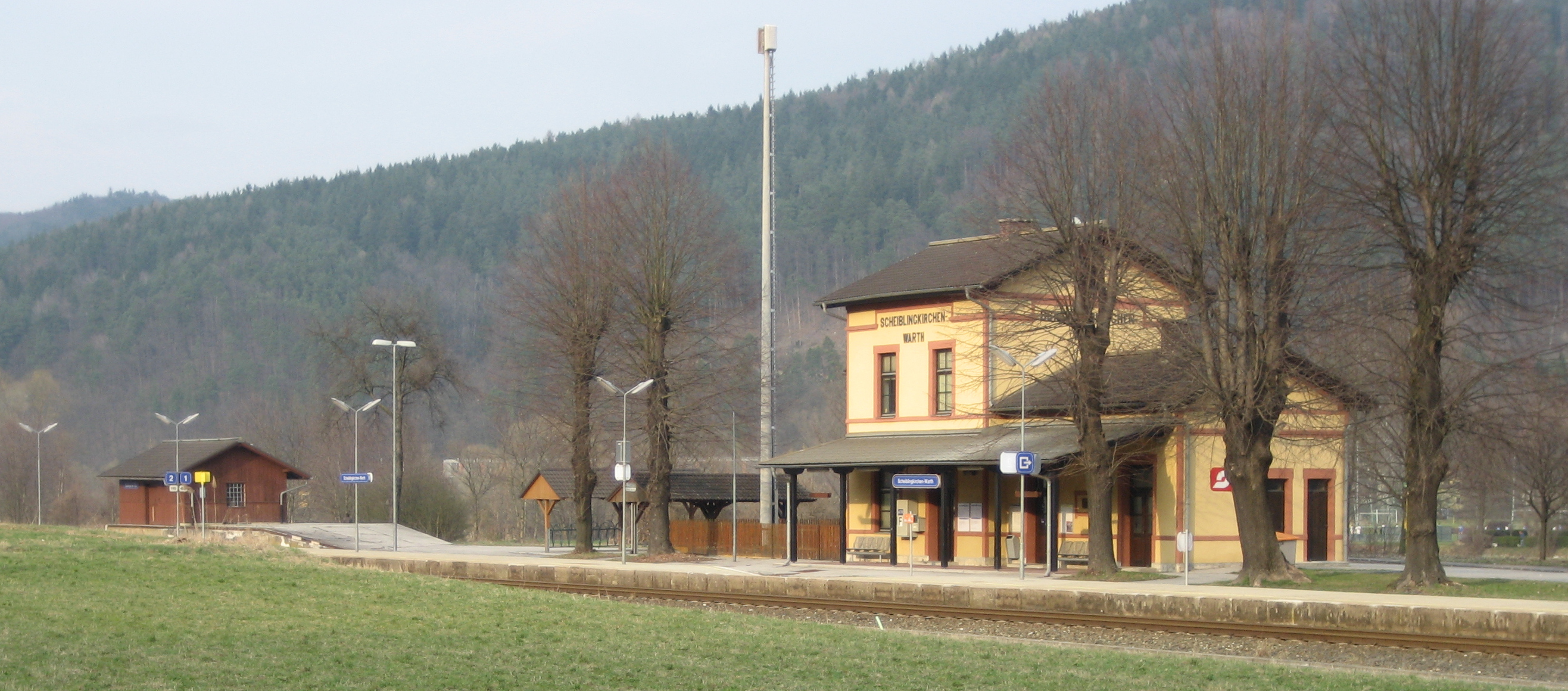 train station Scheiblingkirchen-Warth in Lower Austria